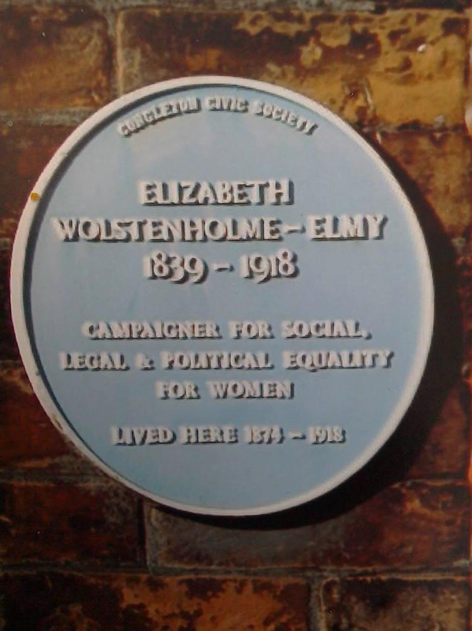 Blue Plaque provided by Congleton Civic Society